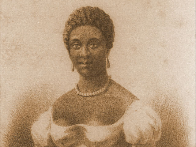 Portrait of Phillis Wheatley in Revue des colonies